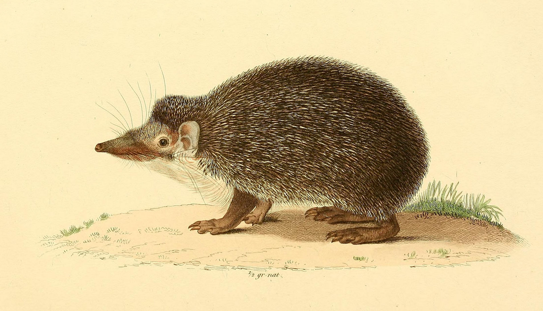 Drawing of the Greater Hedgehog tenrec (Setifer setosus), published by Étienne Geoffroy Saint-Hilaire: Tenrec. Cuc. Centetes. Illig. et Éricule. Ericulus. Is. Geoff. Magasin de Zoologie Serie 2 1, 1839, pp. 1–37